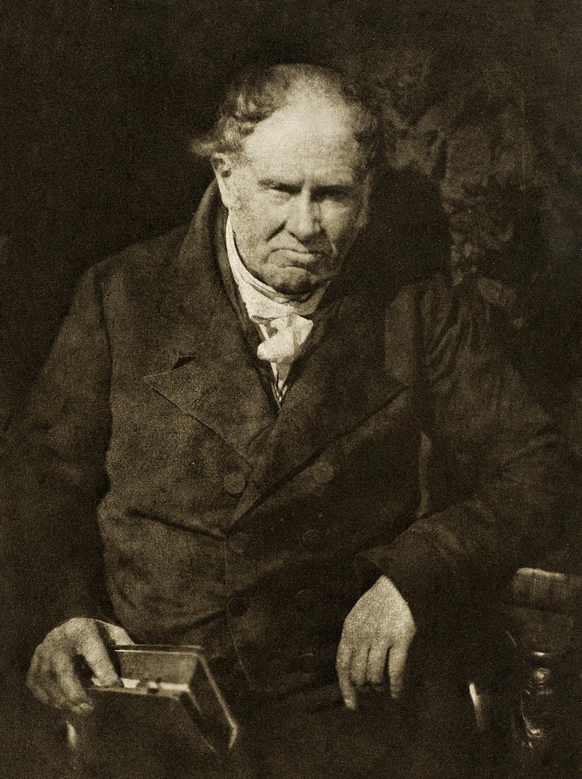 Prof. Alexander Monro, scottish anatomist